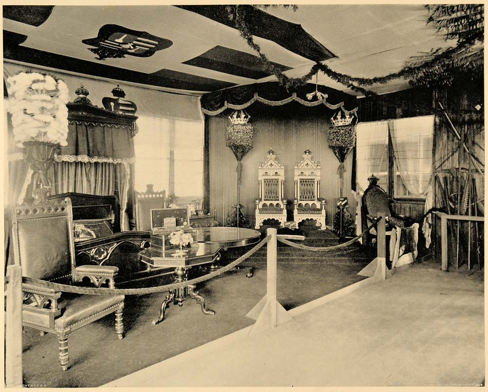 The Thrones of Hawaii, royal furnishings, the royal feather cloak, kāhili and royal standards, along with other items being displayed in the Hawaiian Village at the California Midwinter International Exposition of 1894, in San Francisco.